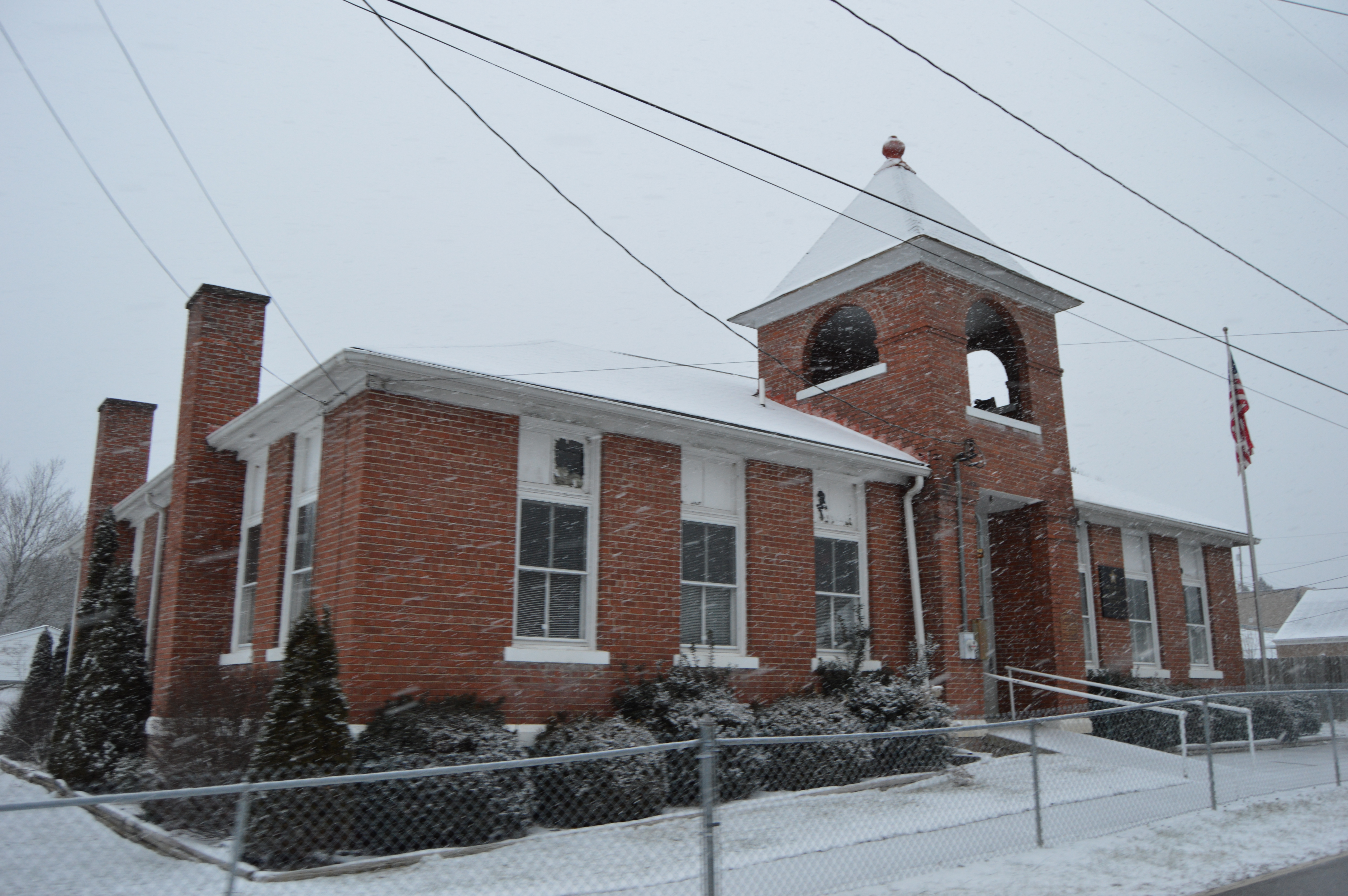 Front of the Lower Salem village hall, located on State Route 821 in Lower Salem, Ohio, United States.